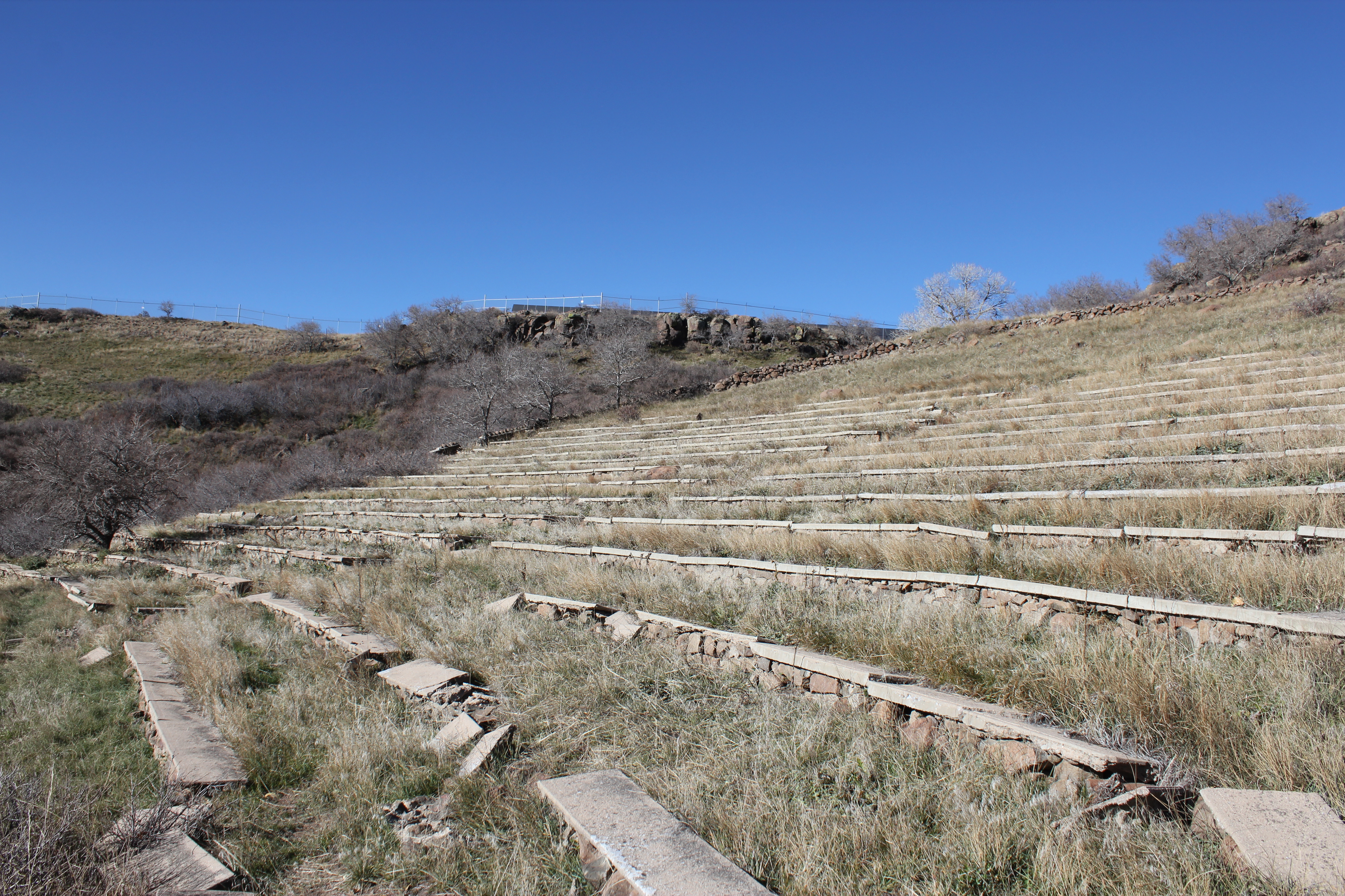 The Colorado Amphitheater, located at 15001 Denver West Parkway in Golden, Colorado. The site is listed on the National Register of Historic Places.